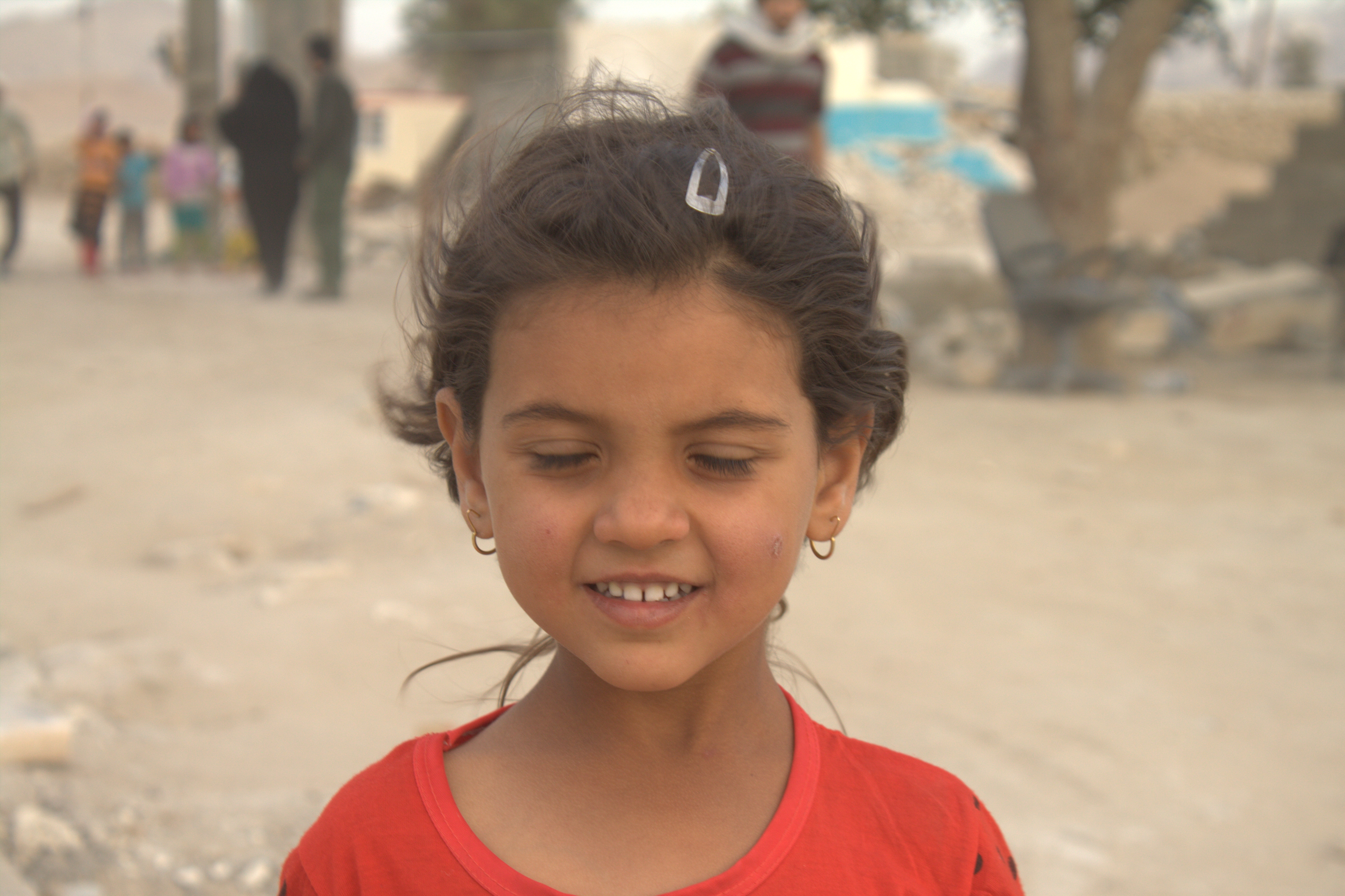 On April 9, 2013, a 6.3-magnitude earthquake struck the Iranian province of Bushehr, near the city of Khvormuj and the towns of Kaki and Shonbeh. At least 37 people were killed, mostly from the town of Shonbeh and villages of Shonbeh-Tasuj district, and an estimated 850 people were injured.